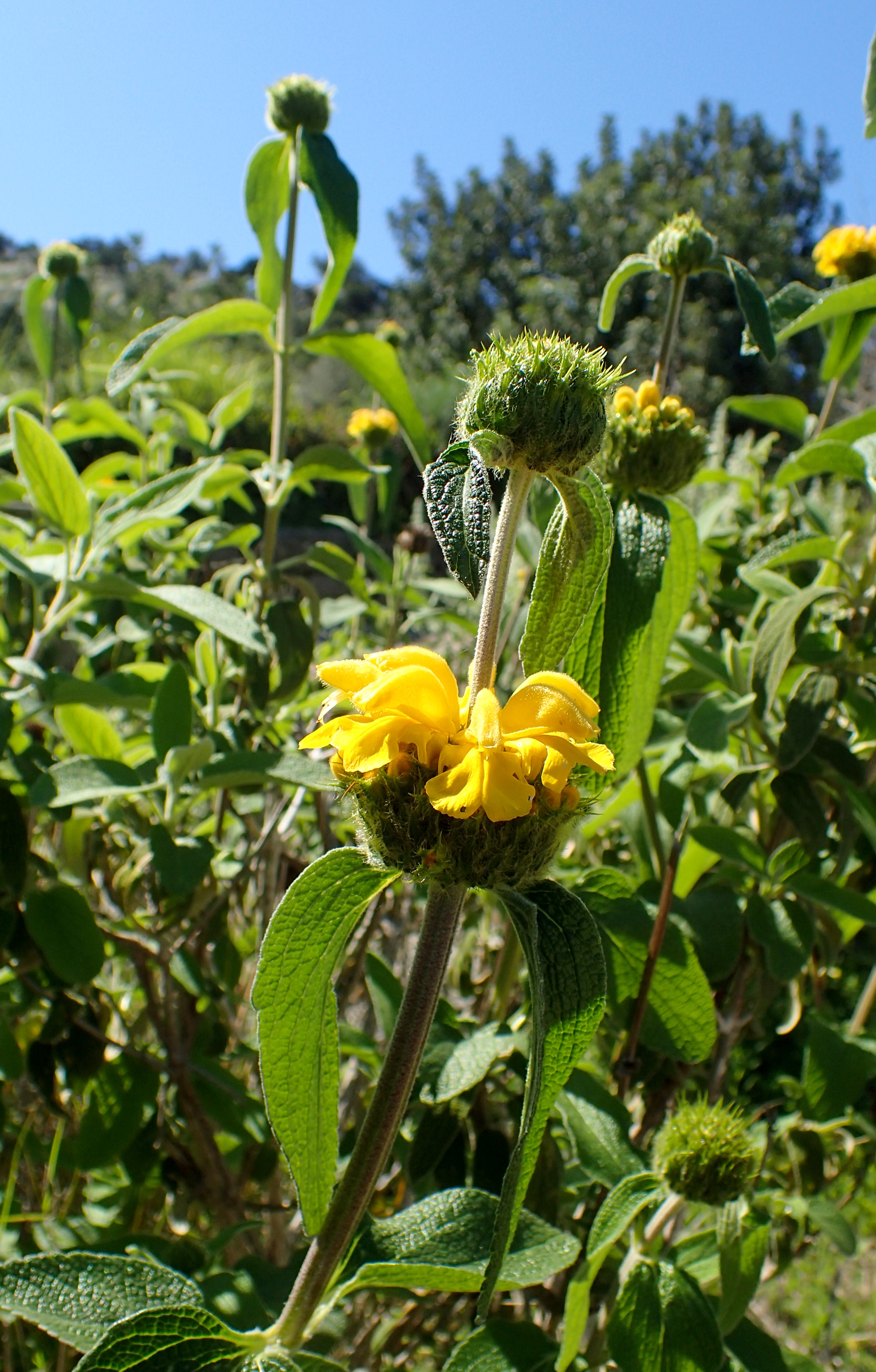 Phlomis cypria in Akamas Botanical Garden, Cyprus